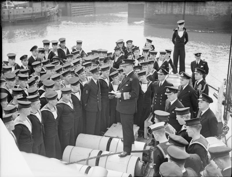 The Battle of the Atlantic 1939-1945 Admiral Sir Percy Noble KCB CVO, Commander in Chief Western Approaches from February 1941 to November 1942, addressing the ship's company of HMS STORK after the sinking of U 574 on 9 December 1941, at Liverpool.